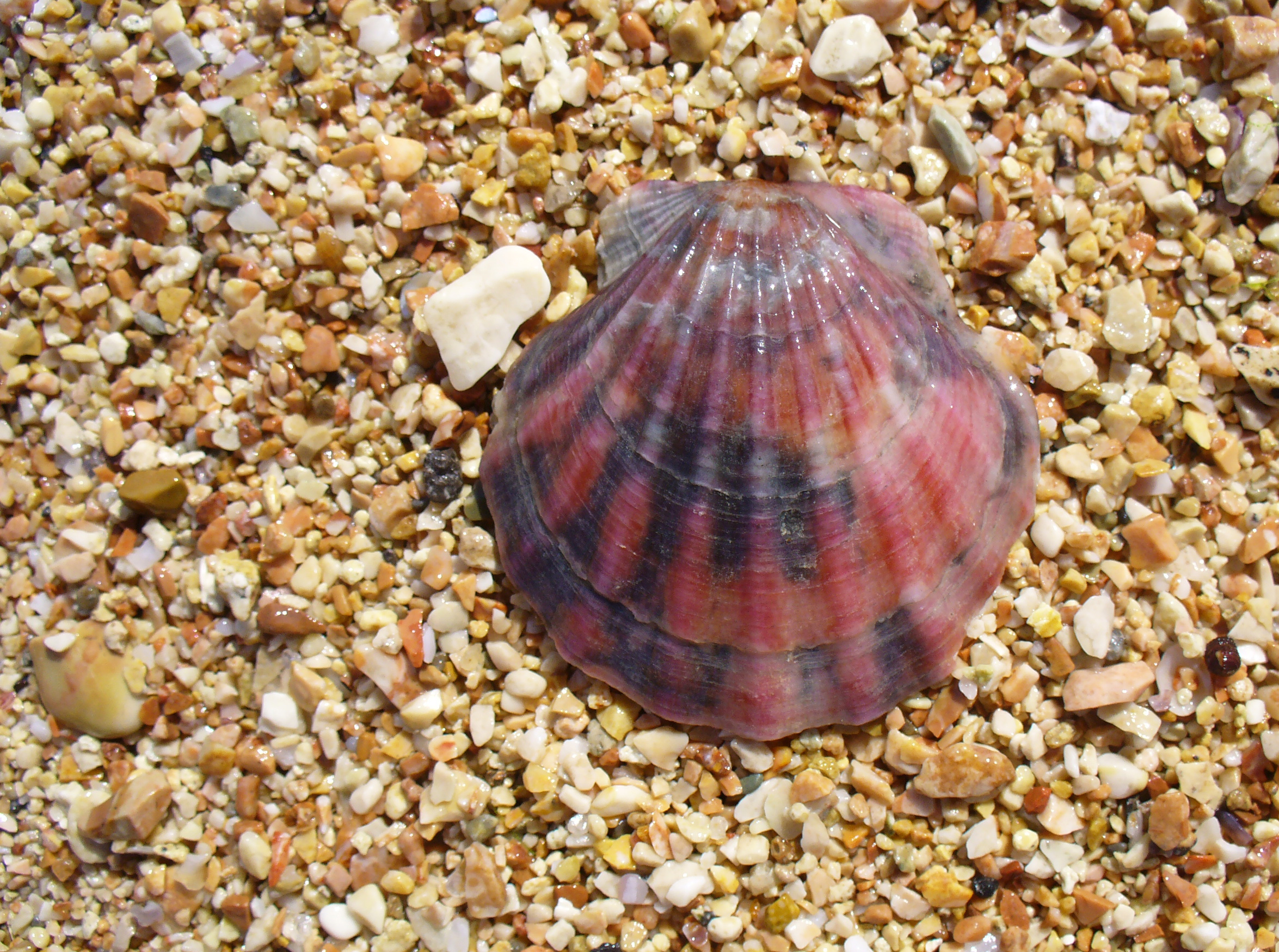 The Scallop shell from the Black Sea (Flexopecten glaber ponticus). Possible extinct approximate after 1990.